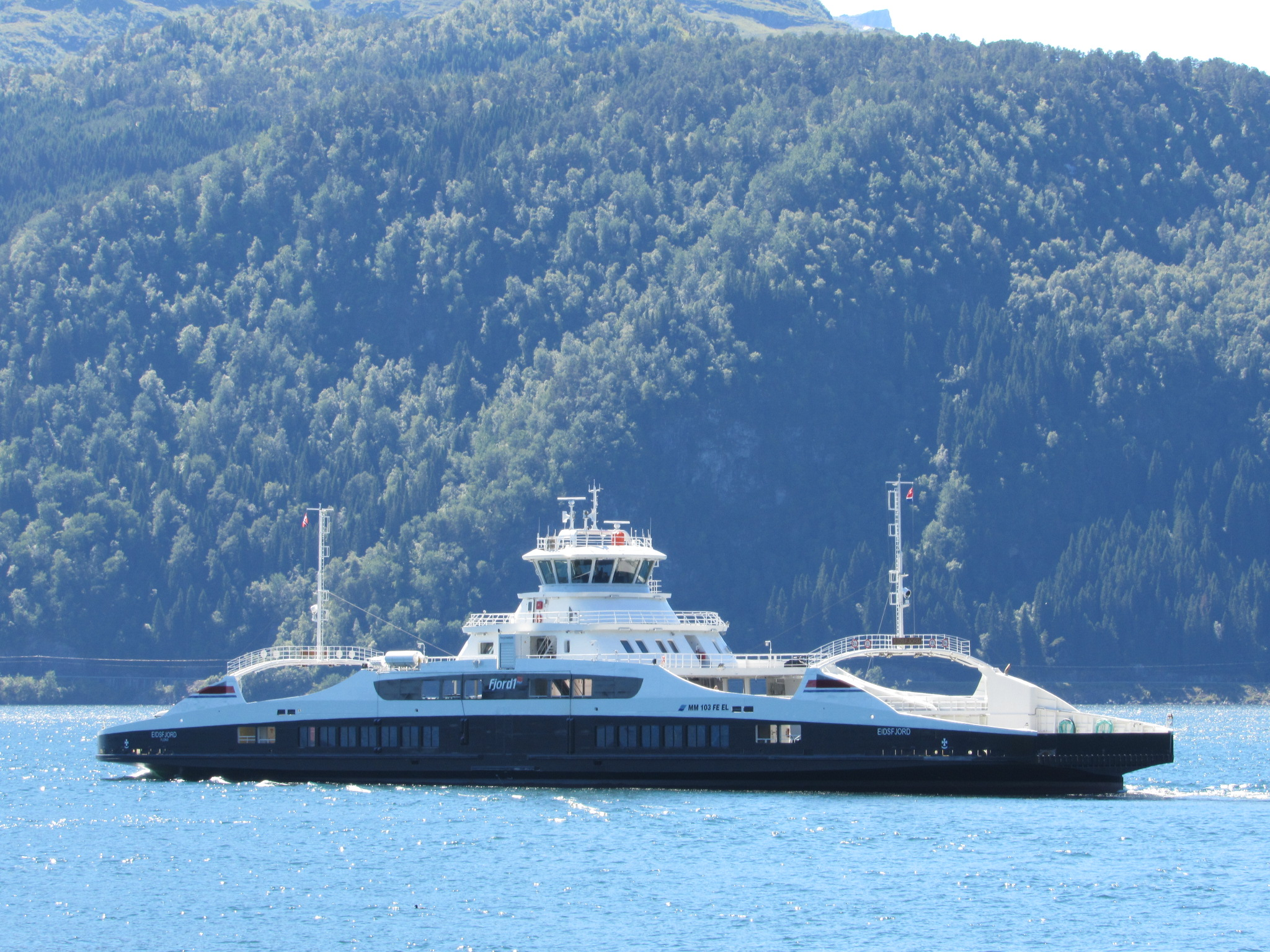 Ro-ro ferry.